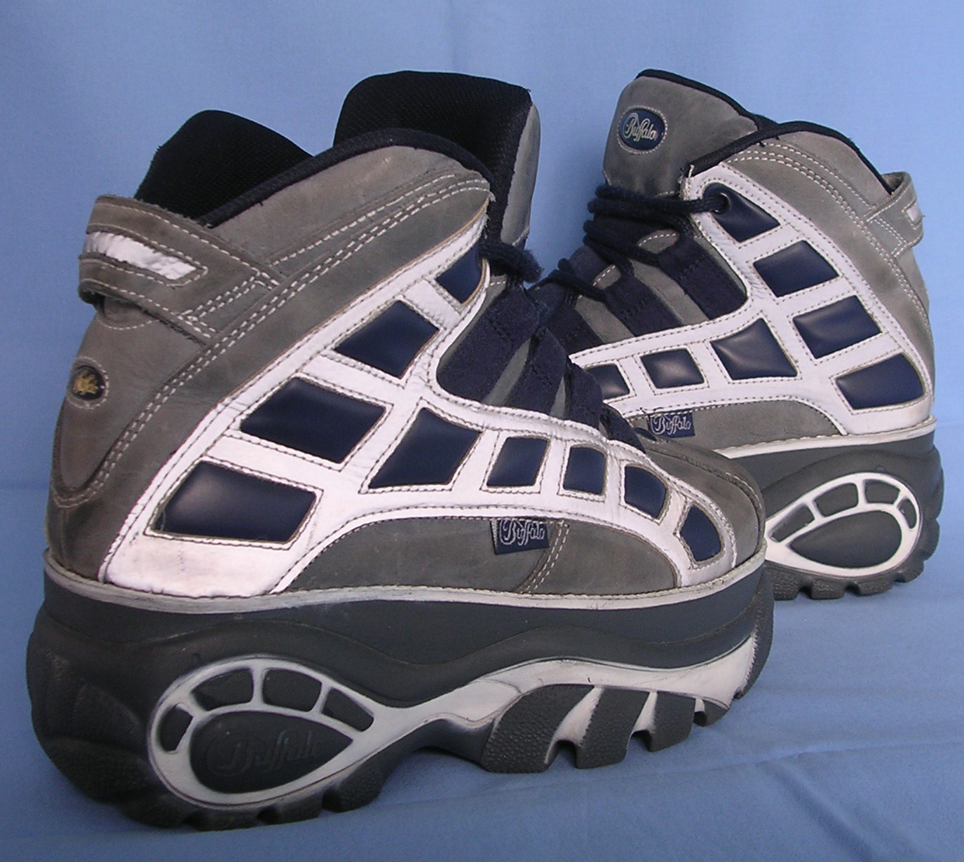 scarpe buffalo